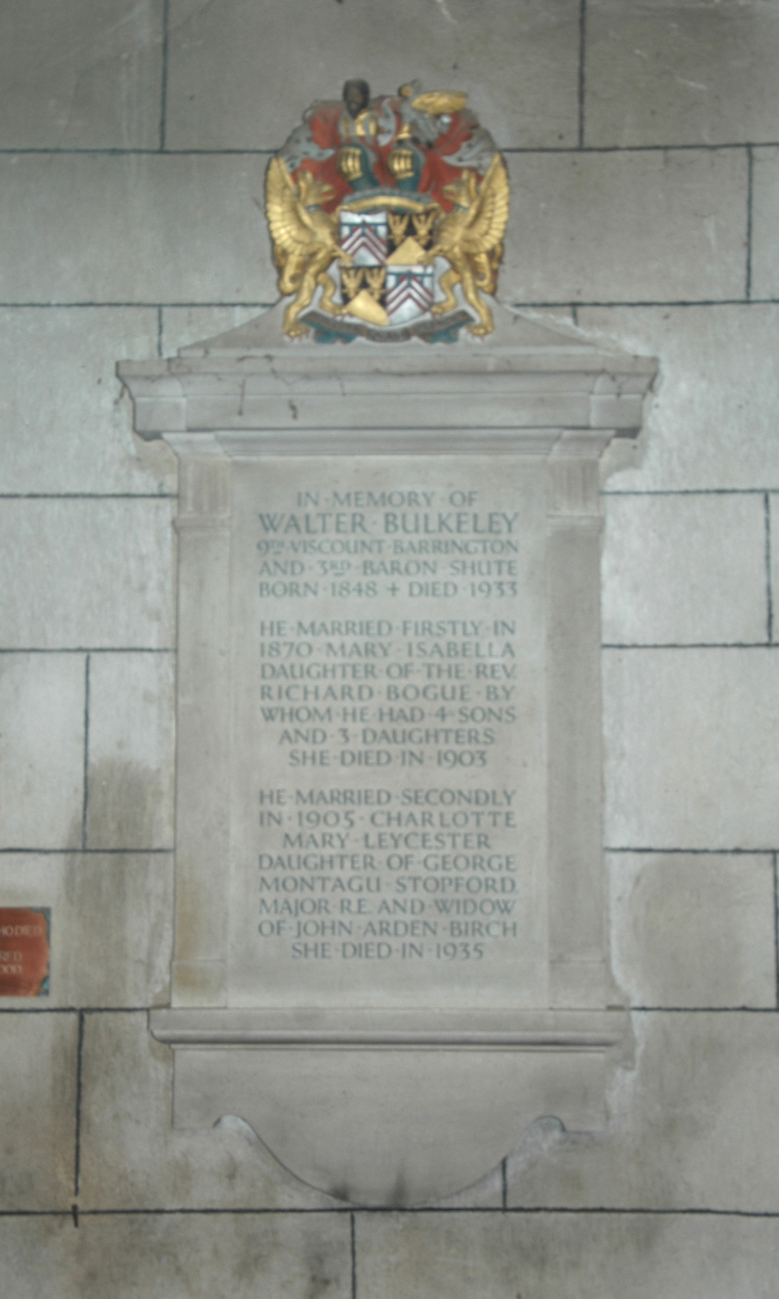 Church of England parish church of St Andrew, Shrivenham, Vale of White Horse: limestone monument to Walter Bulkeley, died 1933